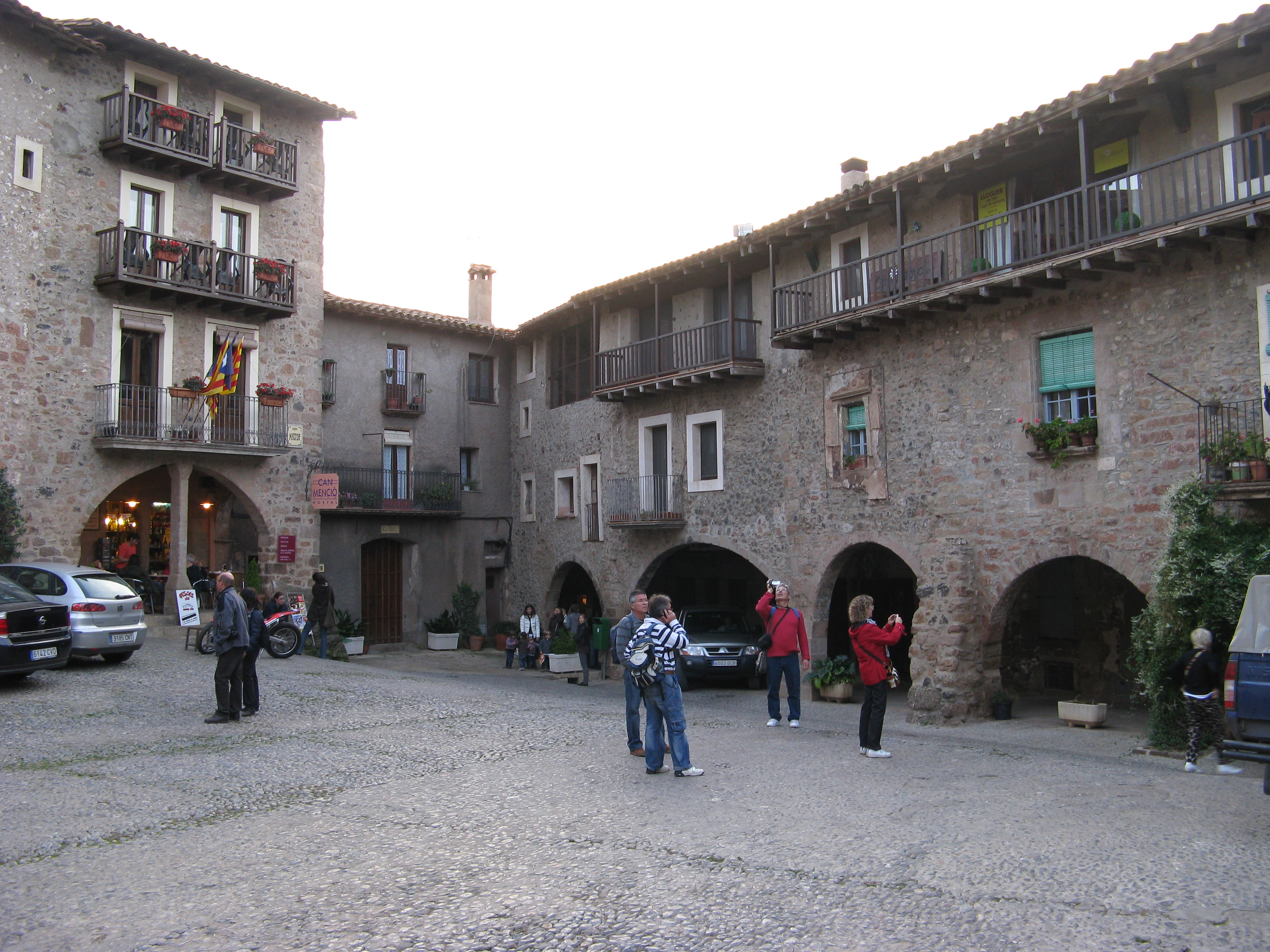 Santa Pau, Catalonia, old market place